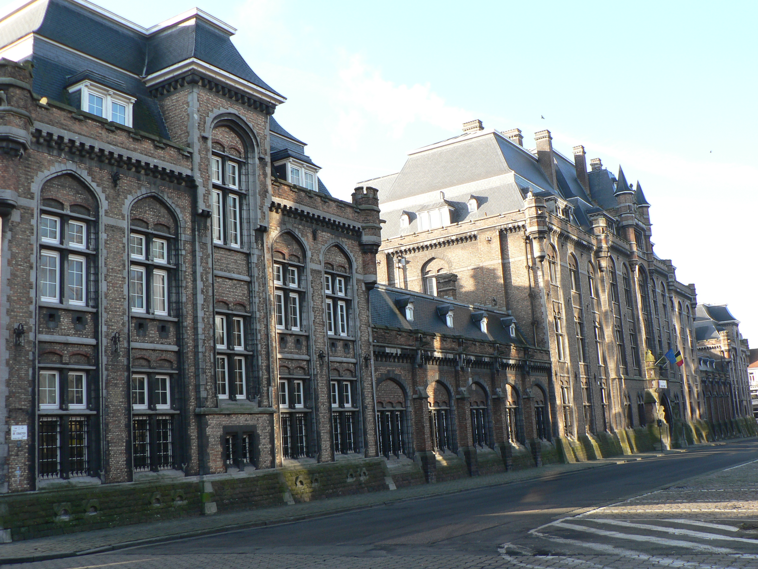 Military Medical Division Building